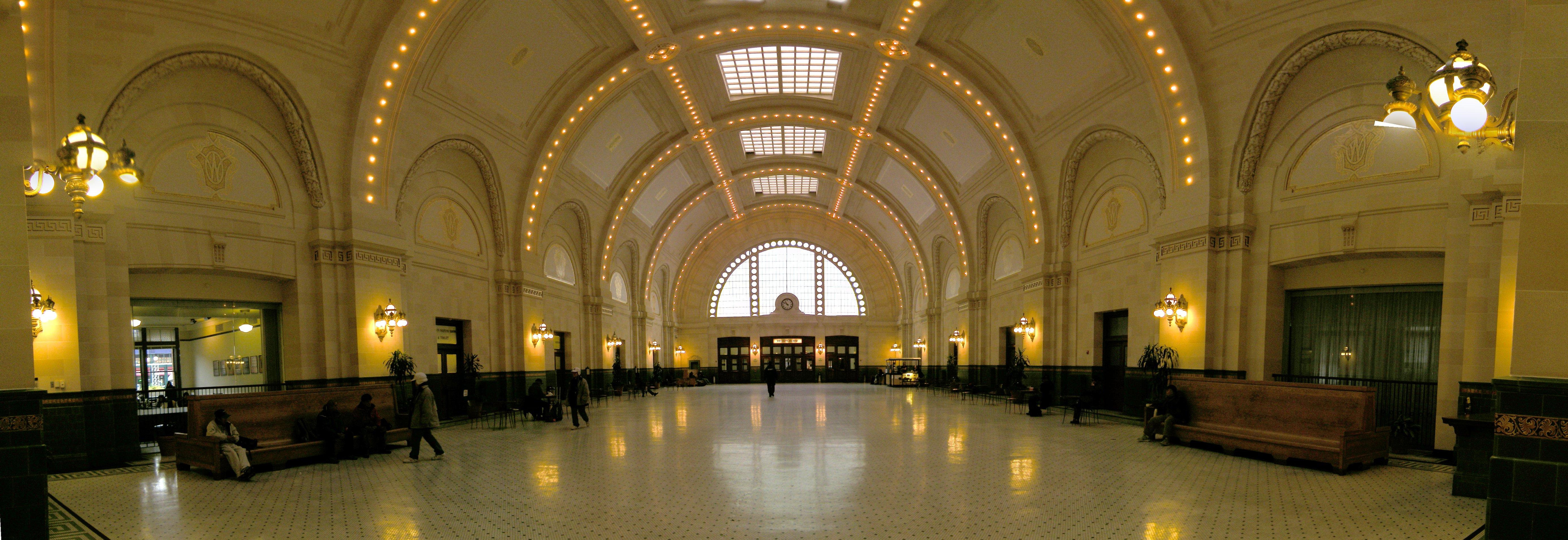 Panoramic view of the Great Hall, Union Station, Seattle, Washington, USA. Former railway station. This image was created with Hugin.